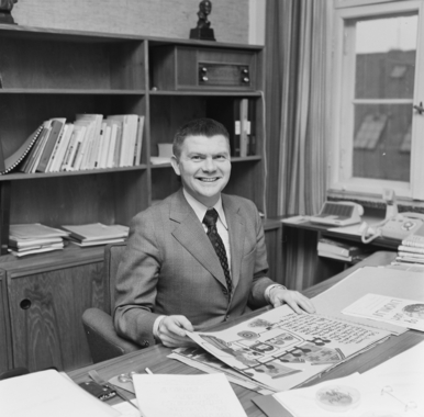 Bjartmar Gjerde (1931–2009), Norwegian politician for the Labour Party. Photo fram 1973 when he was Minister of Church and Education Affairs. Photo by Leif Ørnelund in the collection of Oslo Museum via DigitaltMuseum.